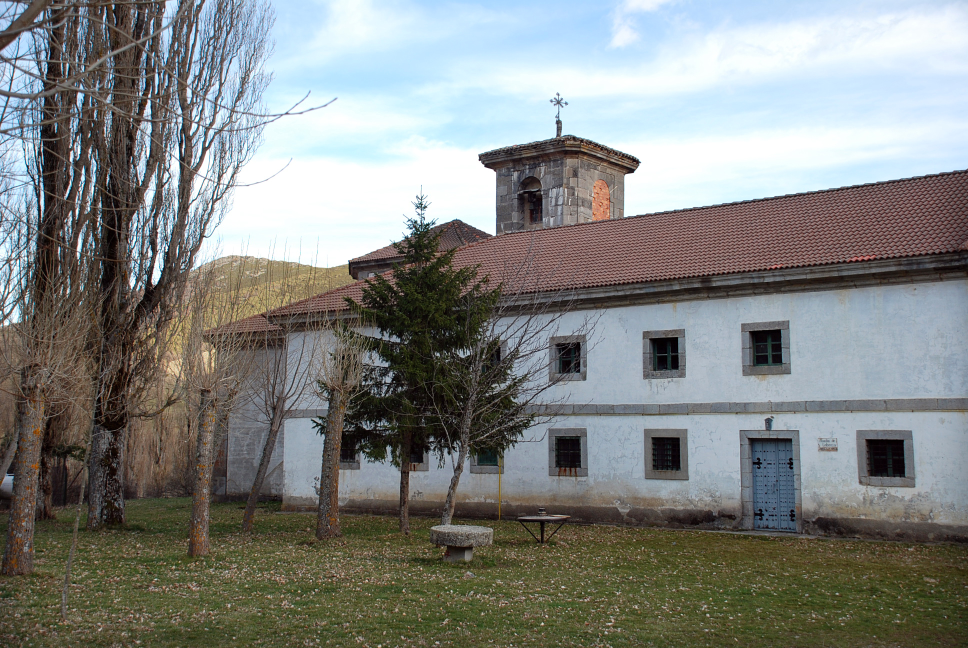 Lebanza Abbey in La Pernía (Palencia, Castile and León).